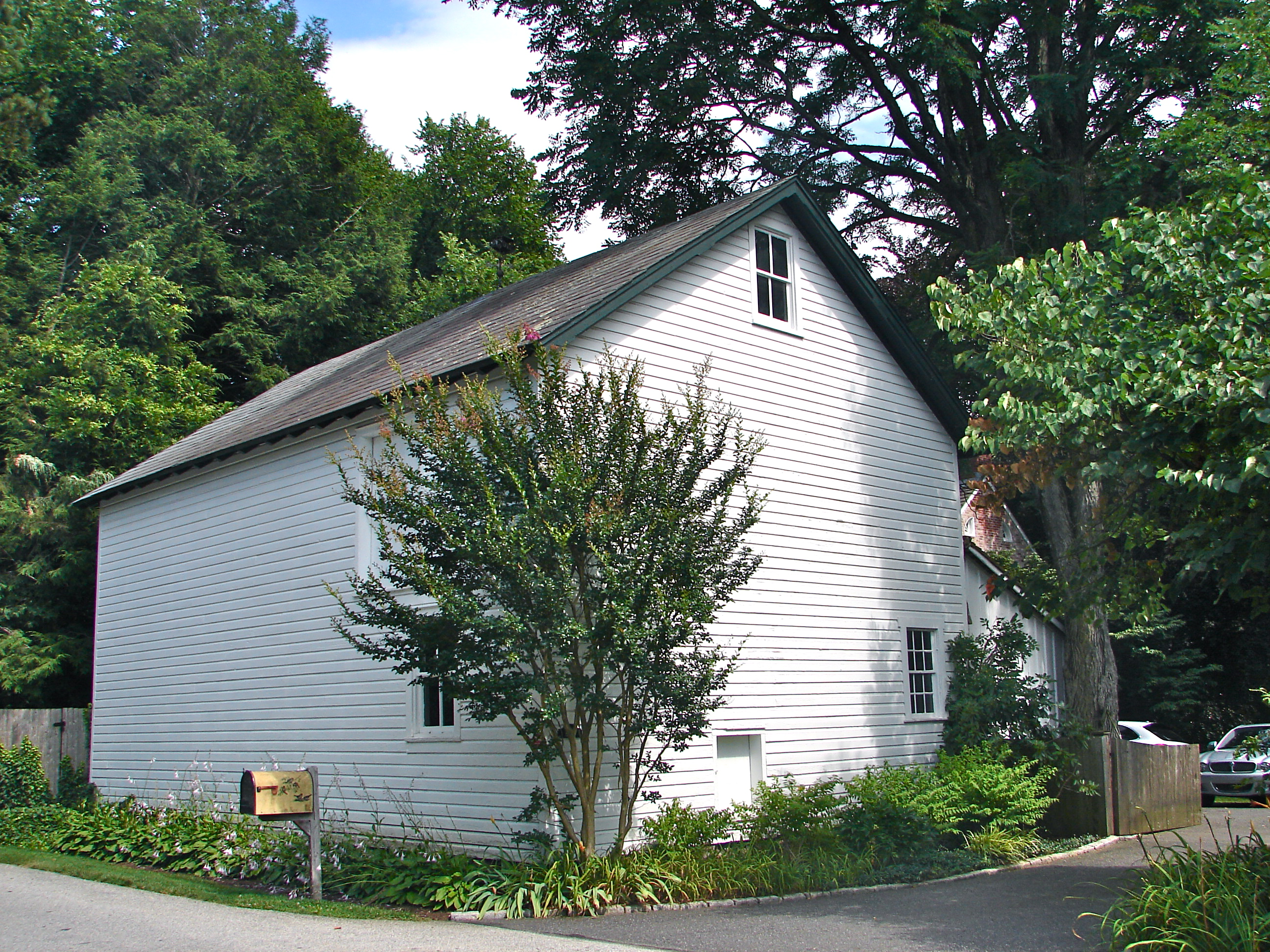 Gatehouse or barn of the Joseph Chandler House on the NRHP since April 13, 1983. At 5826 Kennett Pike, best accessed by the public roadway Chandler Lane, in Centreville, Delaware.